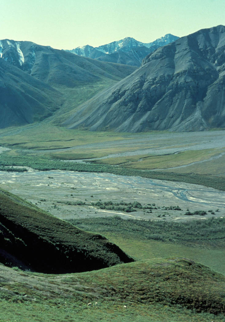 Sheenjek River Valley with dall sheep.